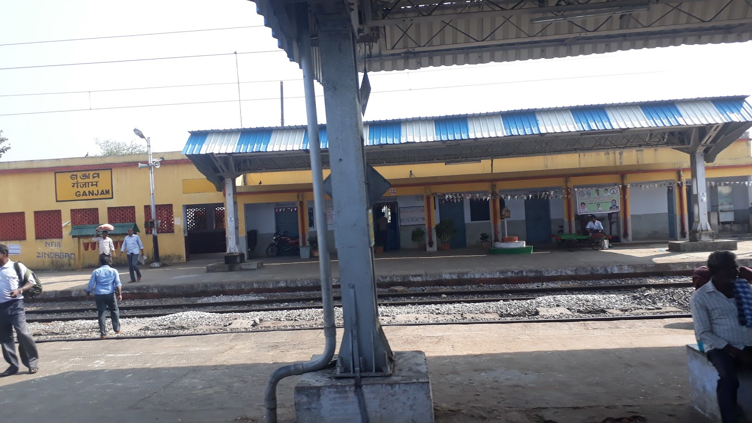 This is the Picture of Ganjam railway station